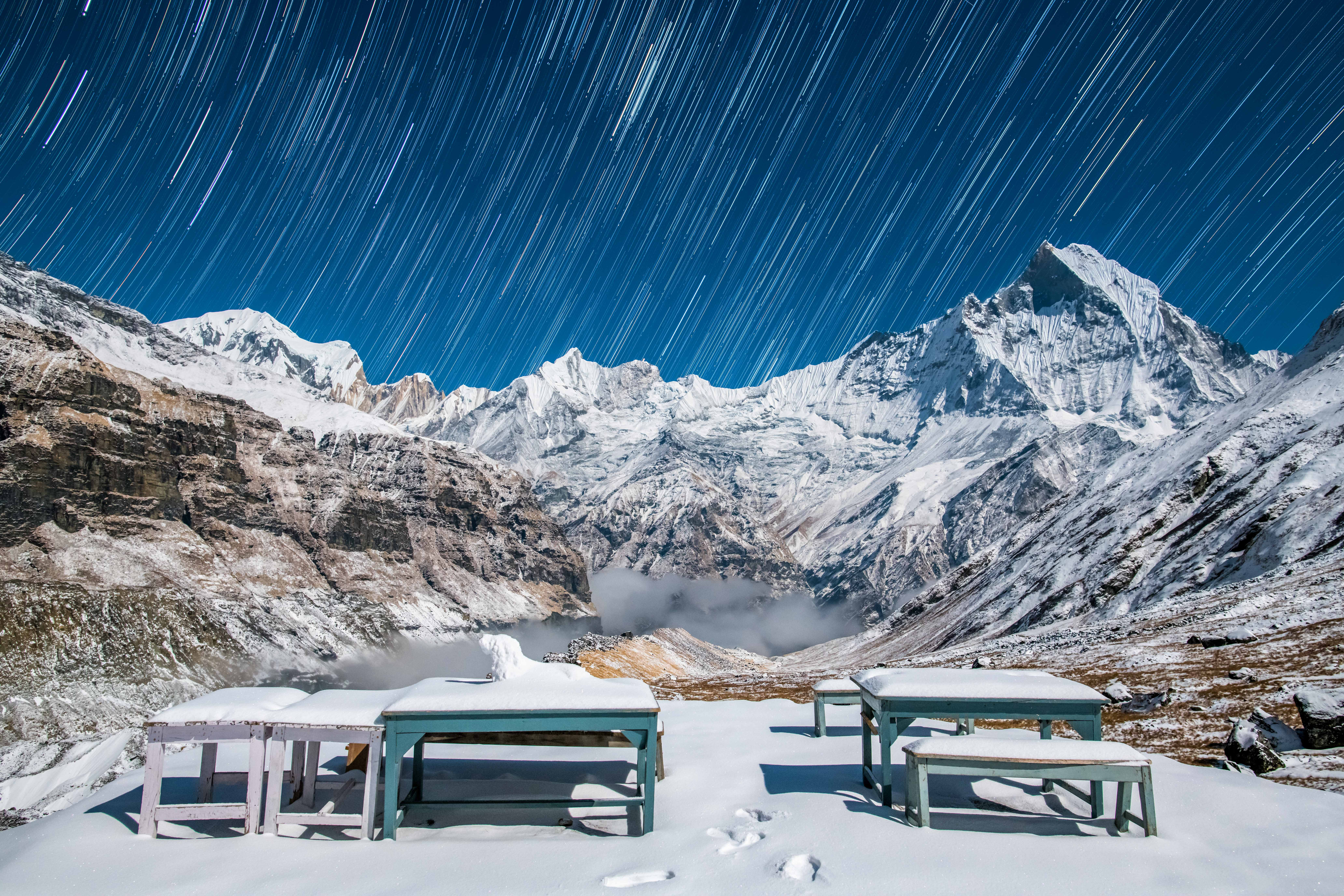 The view of mount Machhapuchre from Annapurna base camp with fresh snow under moonlight and the trails of stars over it.